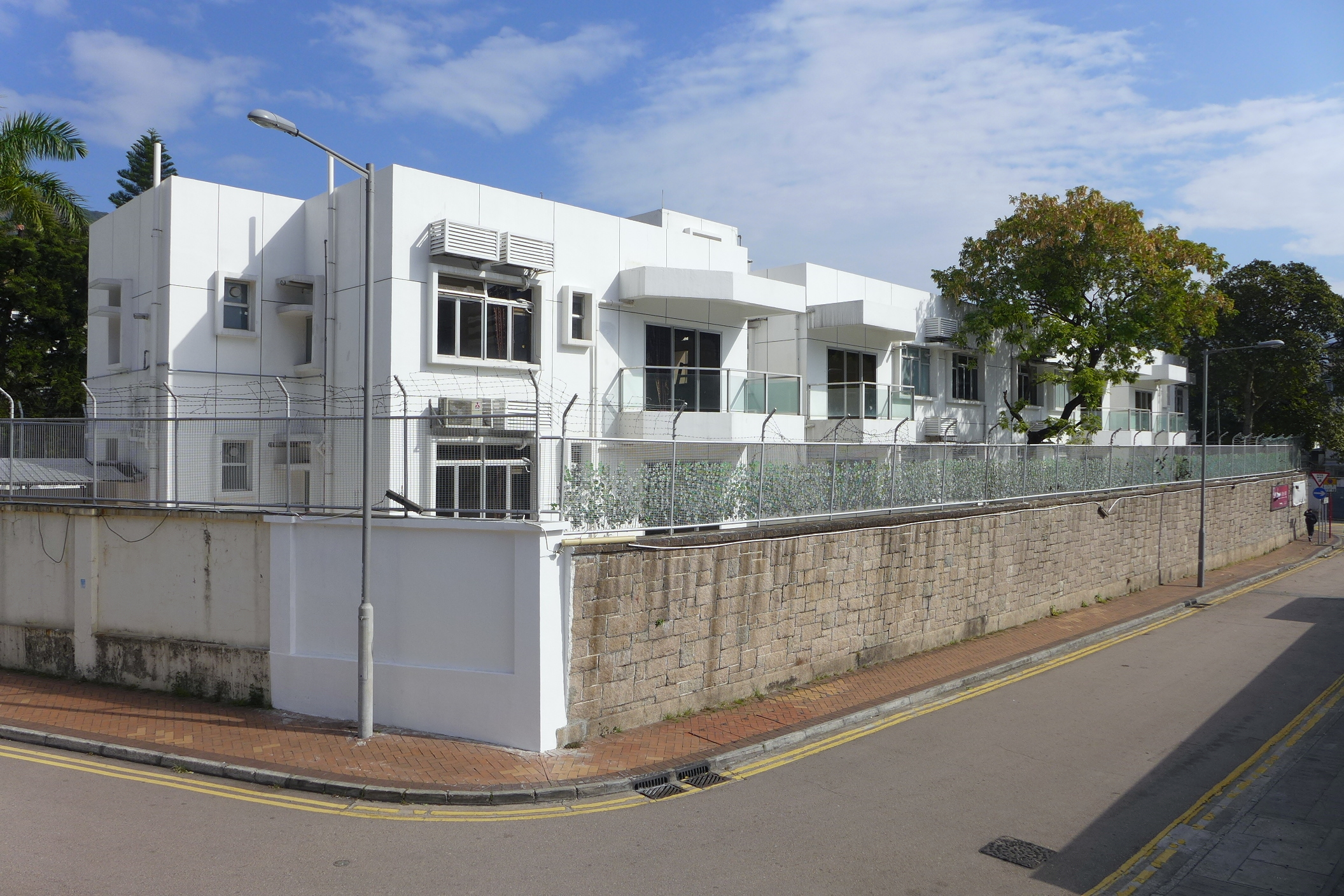 Kent Mansion. Kowloon Tong